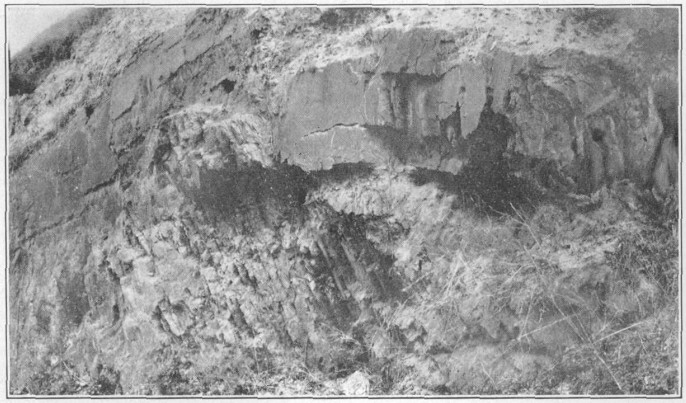 Figure caption: Anticline in Antietam Schist, roadcut 2 miles west of Bellemont. Shows gently dipping bedding and steeply dipping schistosity cutting it. (Bellemont is within Paradise Township, Lancaster County, PA, south of the town of Paradise).